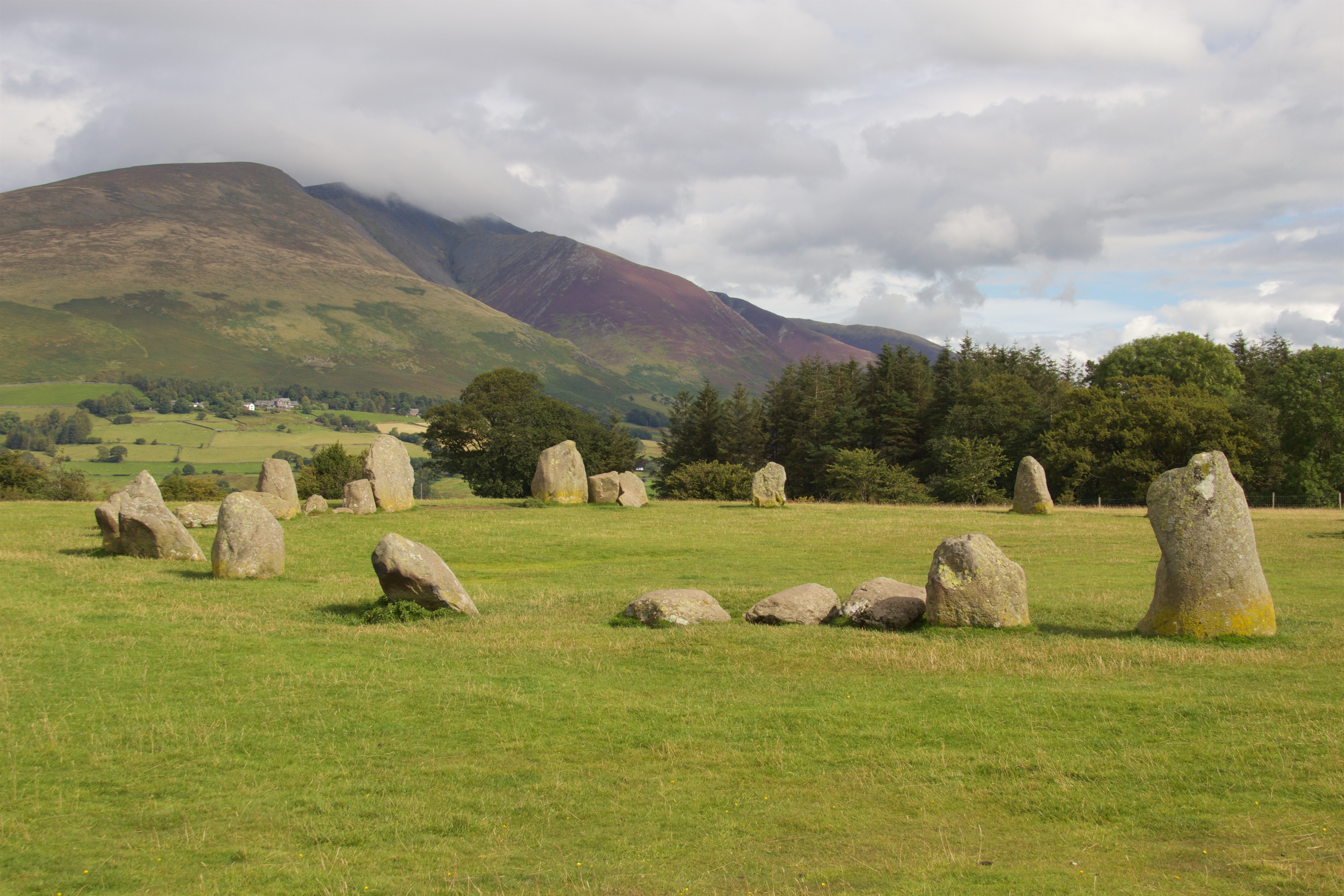 Castlerigg Stone Circle, United Kingdom